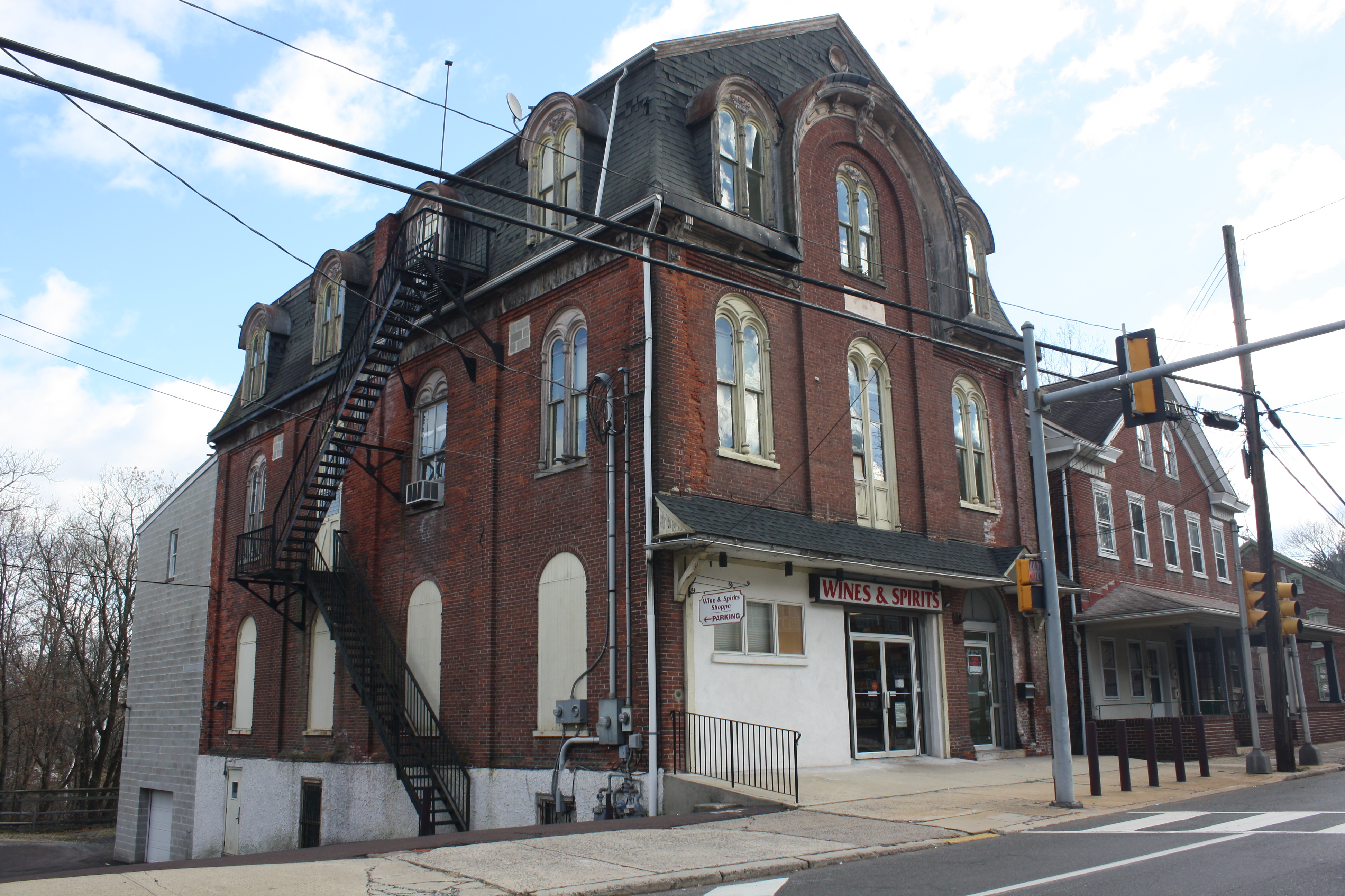 Main St. (Route 73/29) in Schwenksville, Montgomery County, Pennsylvania. Corner with Perkiomen Ave.